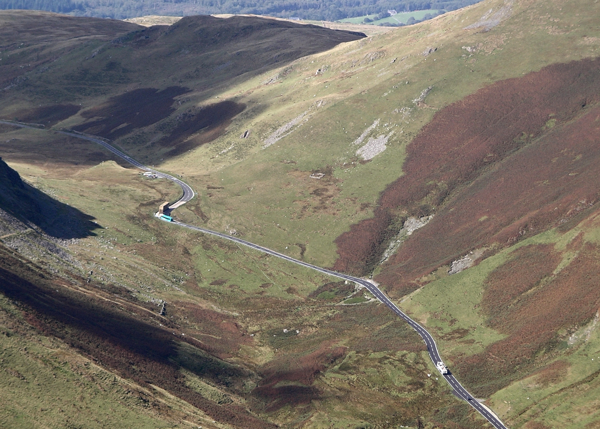 The A470 trunk road passing over Bwlch Oerddrws in south Snowdonia